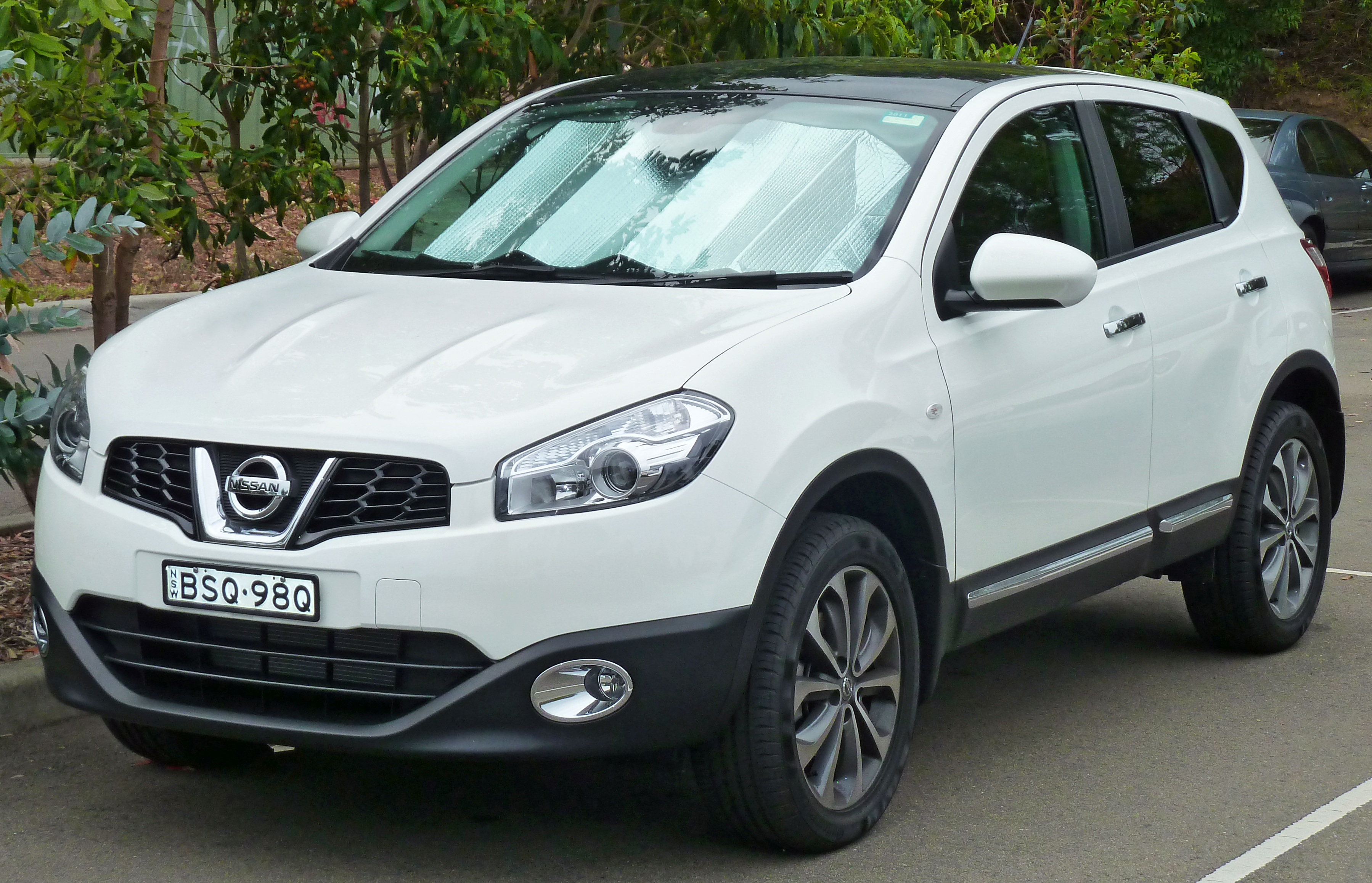 2010 Nissan Dualis (J10 Series II MY10) Ti wagon. Photographed in Kirrawee, New South Wales, Australia.